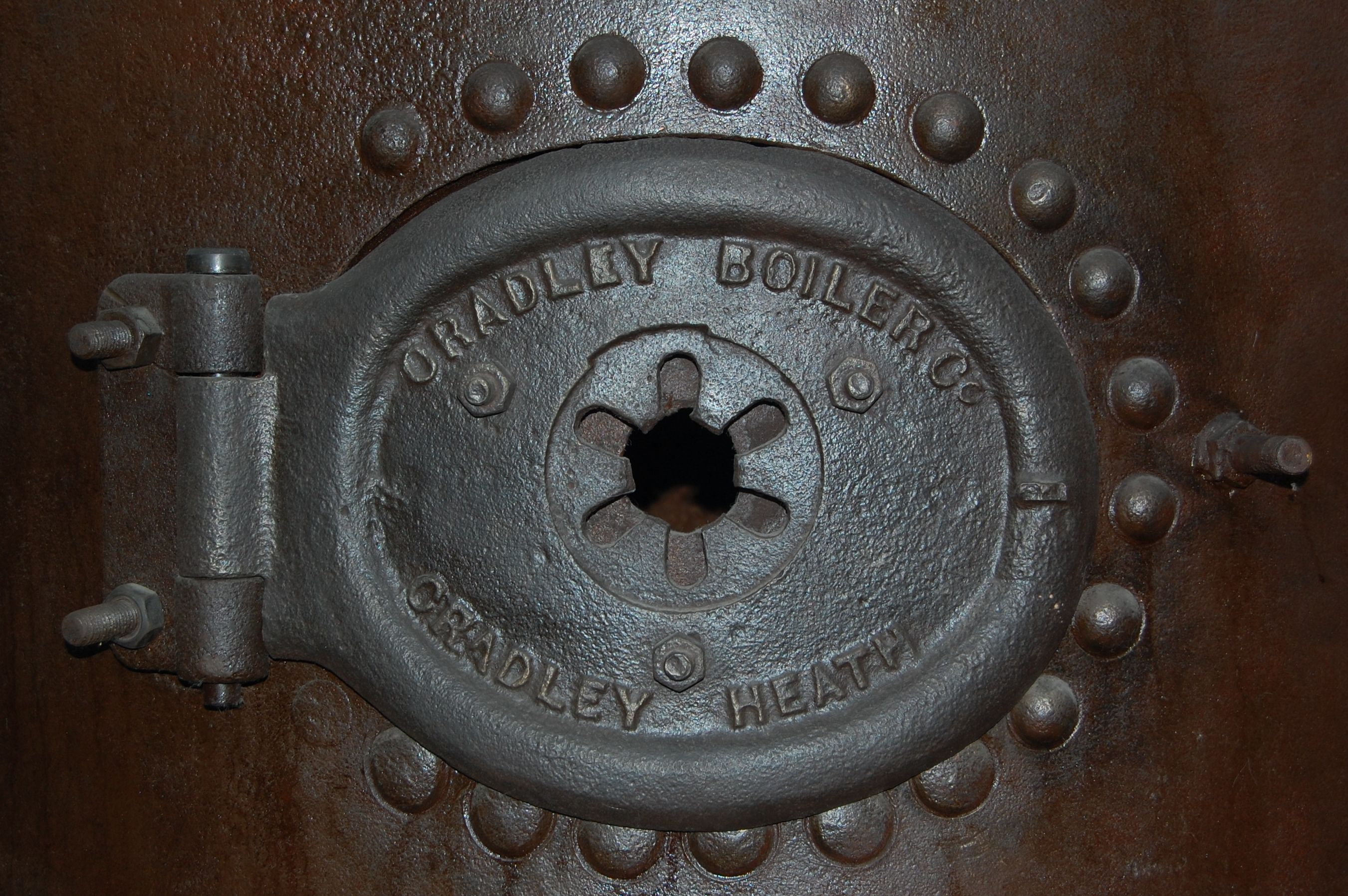 Part of a boiler made by the Cradley Boiler Co, of Cradley Heath, showing the cover over an inspection hatch. The boiler is displayed in the Black Country Living Museum.